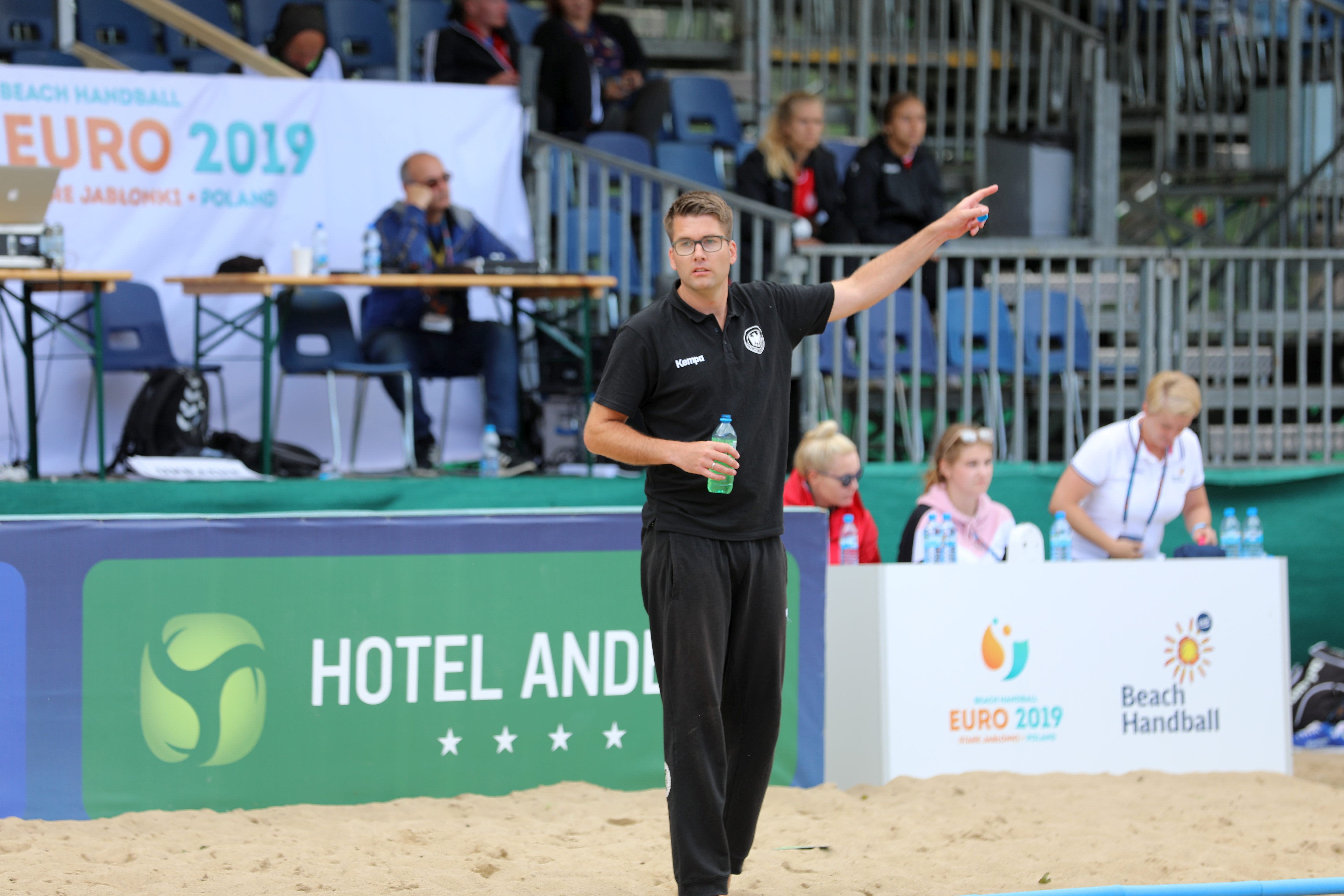 Beach handball Euro; Day 3: 4 July 2019 – Women Main Round Group II – Germany-Spain 1:2 (18:24, 24:14, 8:9)